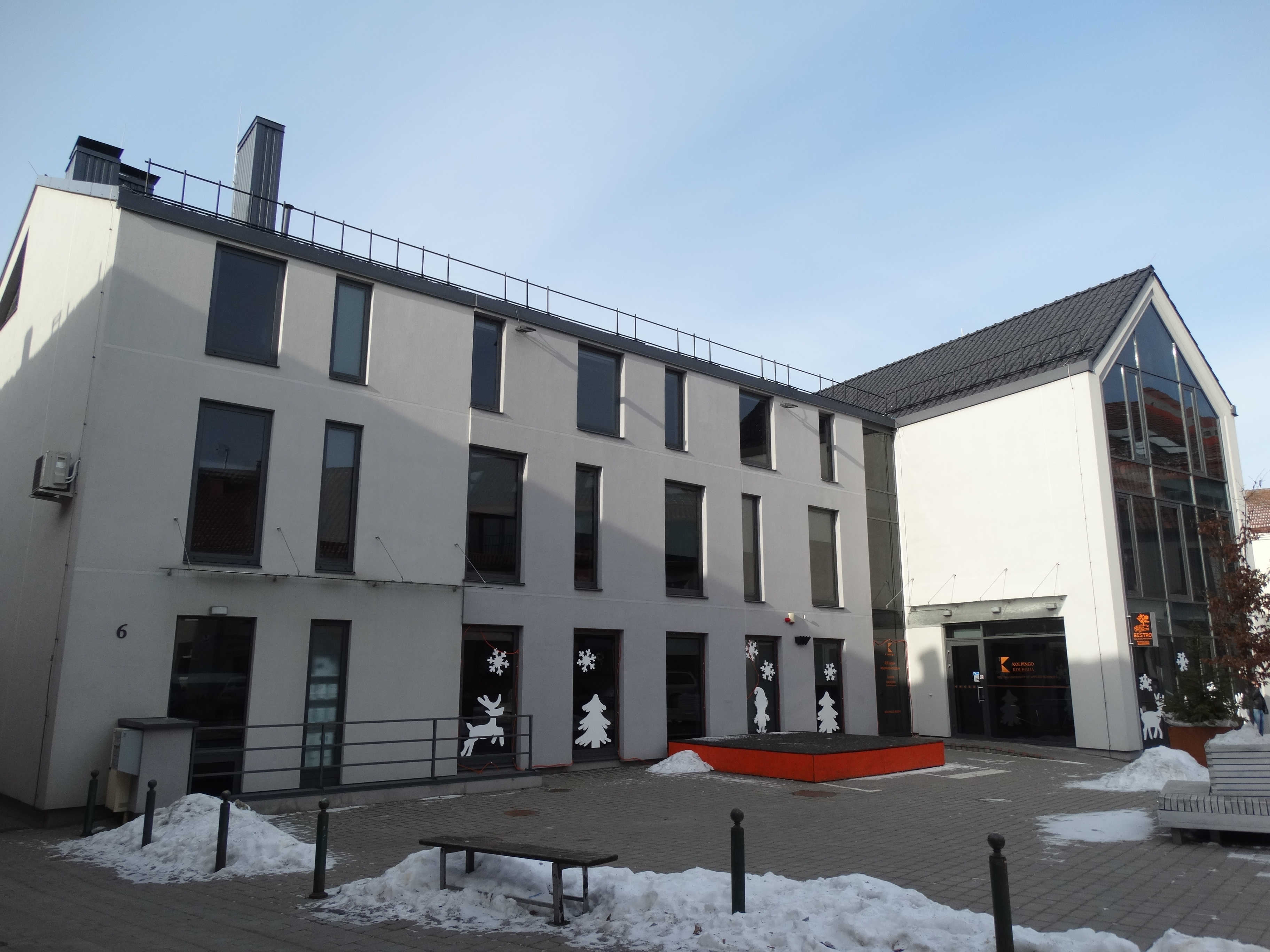 Kolping College, Kaunas, Lithuania